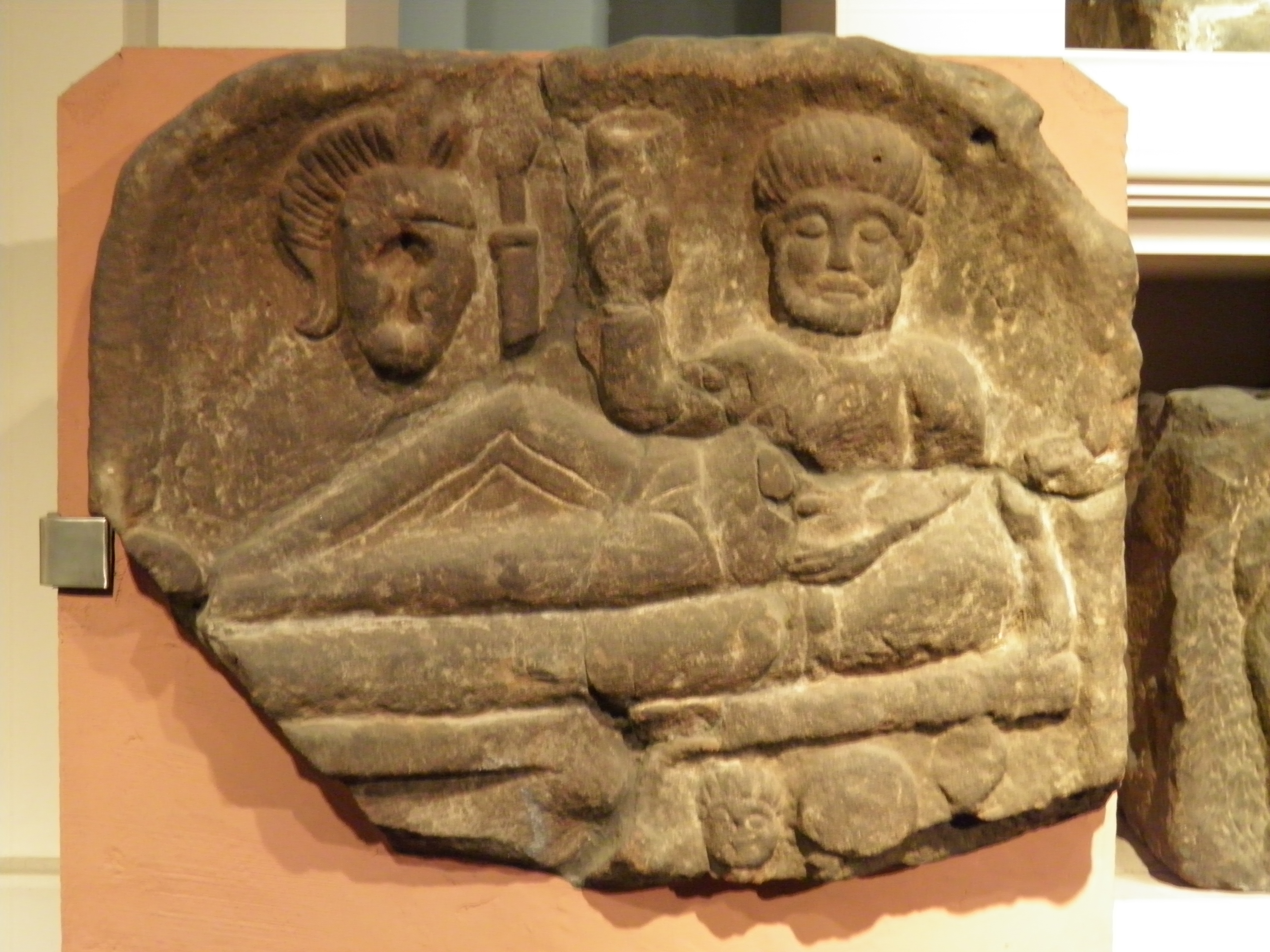 Roman tombstone, fragment depicting a funeral banquet, Deva Victrix (Chester, UK), The Grosvenor Museum